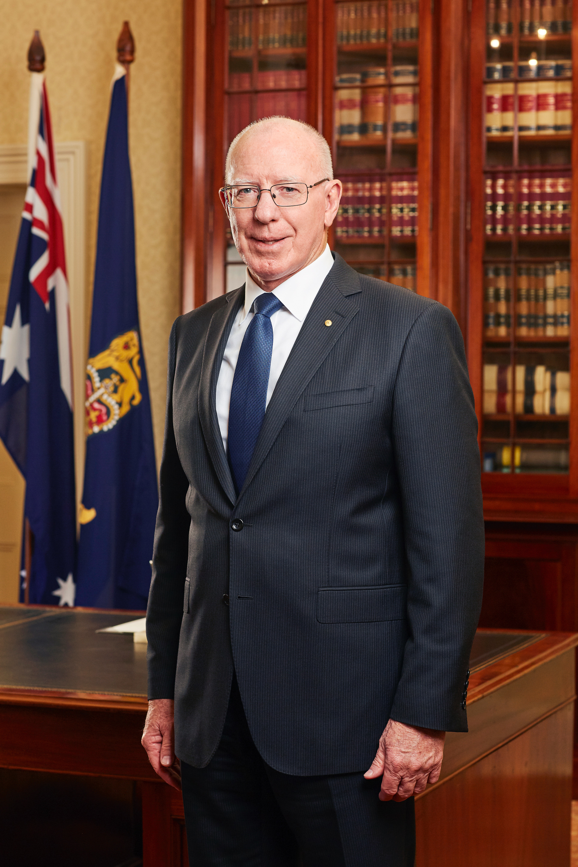 David Hurley, 26th Governor-General of Australia